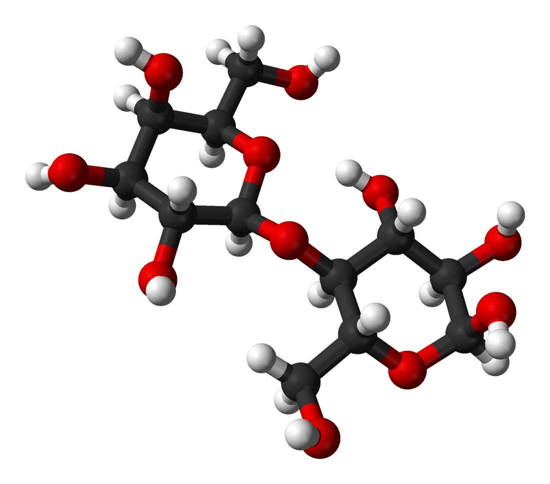 Ball-and-stick model of the α-lactose molecule, C12H22O11, as found in the crystal structure of the monohydrate. X-ray crystallographic data from J. H. Smith, S. E. Dann, M. R. J. Elsegood, S. H. Dale and C. G. Blatchford (August 2005). "α-Lactose monohydrate: a redetermination at 150 K". Acta Cryst. E61 (8): o2499-o2501. Model constructed in CrystalMaker 8.1. Image generated in Accelrys DS Visualizer.